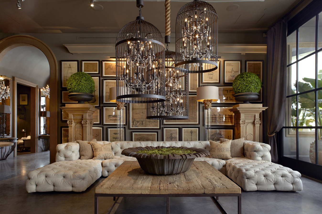 Showroom of Restoration Hardware